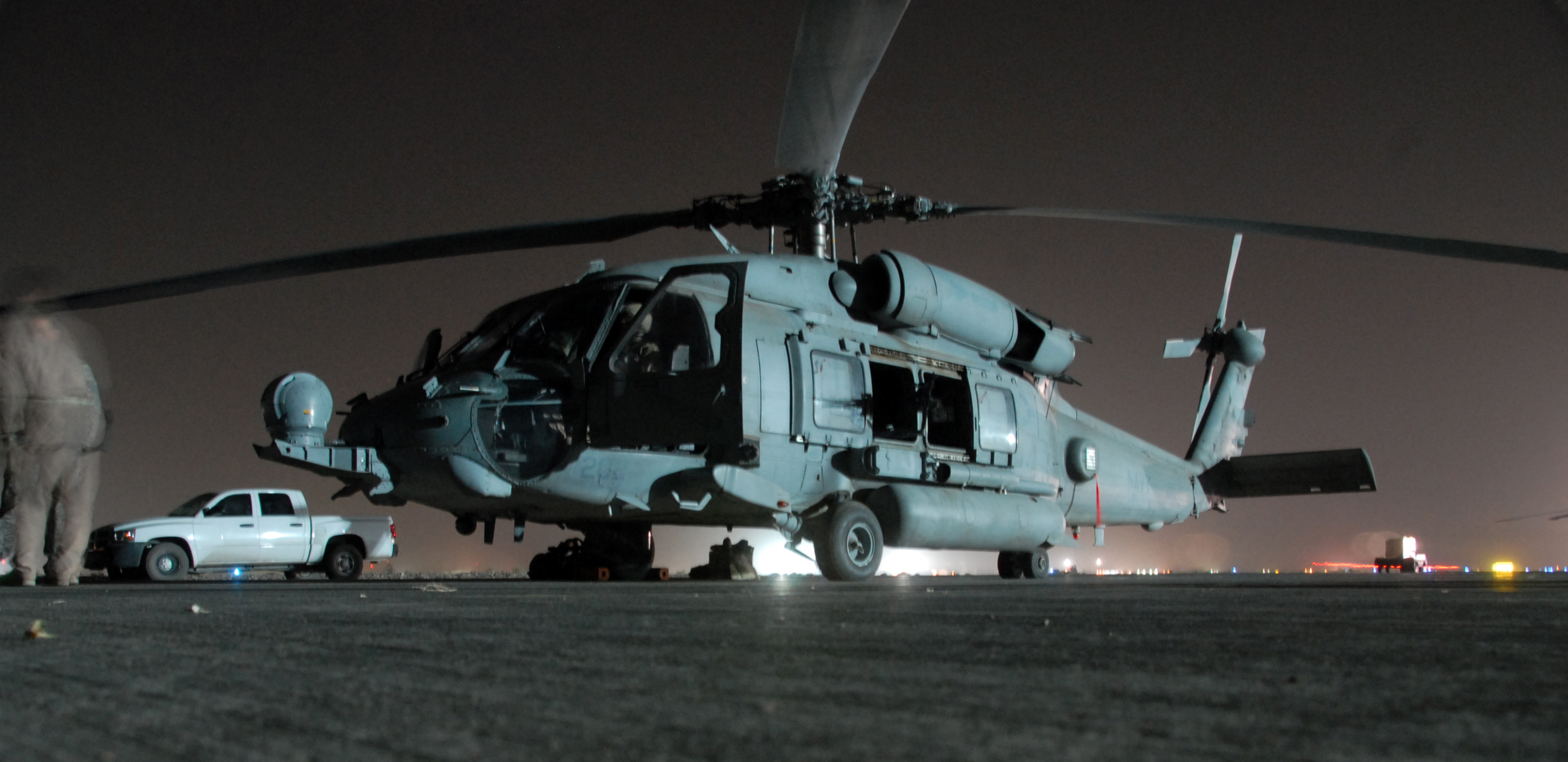 BALAD, Iraq (Aug. 25, 2008) Members of Combined Joint Special Operations Air Component (CJSOAC) , from Helicopter Sea Combat Squadron (HSC) 84, conduct night operations. HSC-84 is the only Navy component of the CJSOAC and has been supporting vital special operations missions in the Iraqi theatre. (U.S. Navy photo by Petty Officer 1st Class Joseph W. Pfaff (Released)